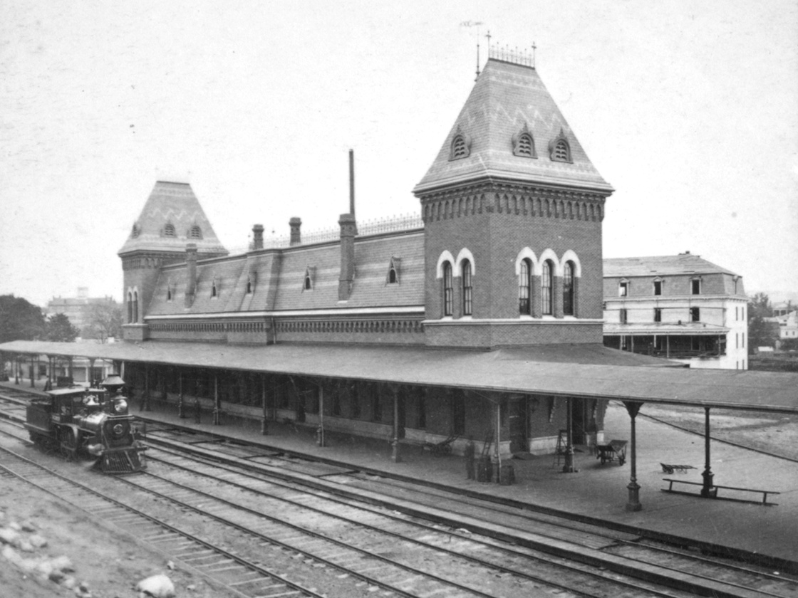 Circa-1880 photograph of Pittsfield Union Station